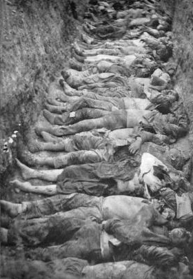 Nakhitchevan, corpes of Armenians after the may massacre.